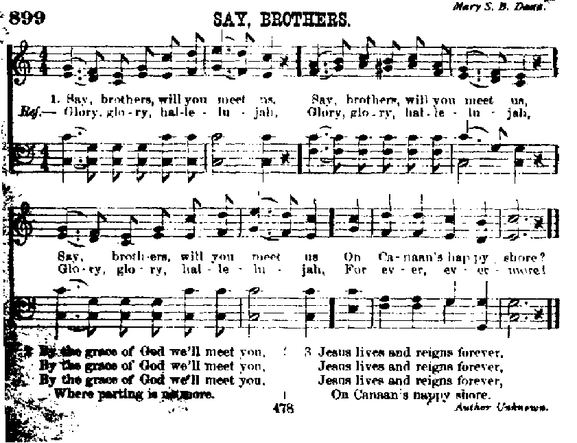 "Say, Brothers" from Hymn and Tune Book of the Methodist Episcopal Church, South, Round Note Edition, Nashville, TN (1889, reprinted 1903). This tune is the predecessor of both John Brown's Body and the Battle Hymn of the Republic. The tune and words were created as folk music in the camp meeting atmosphere of mid 1850s United States. William Steffe (1830-1890) was the first to collect, arrange, and publish the words and tune.